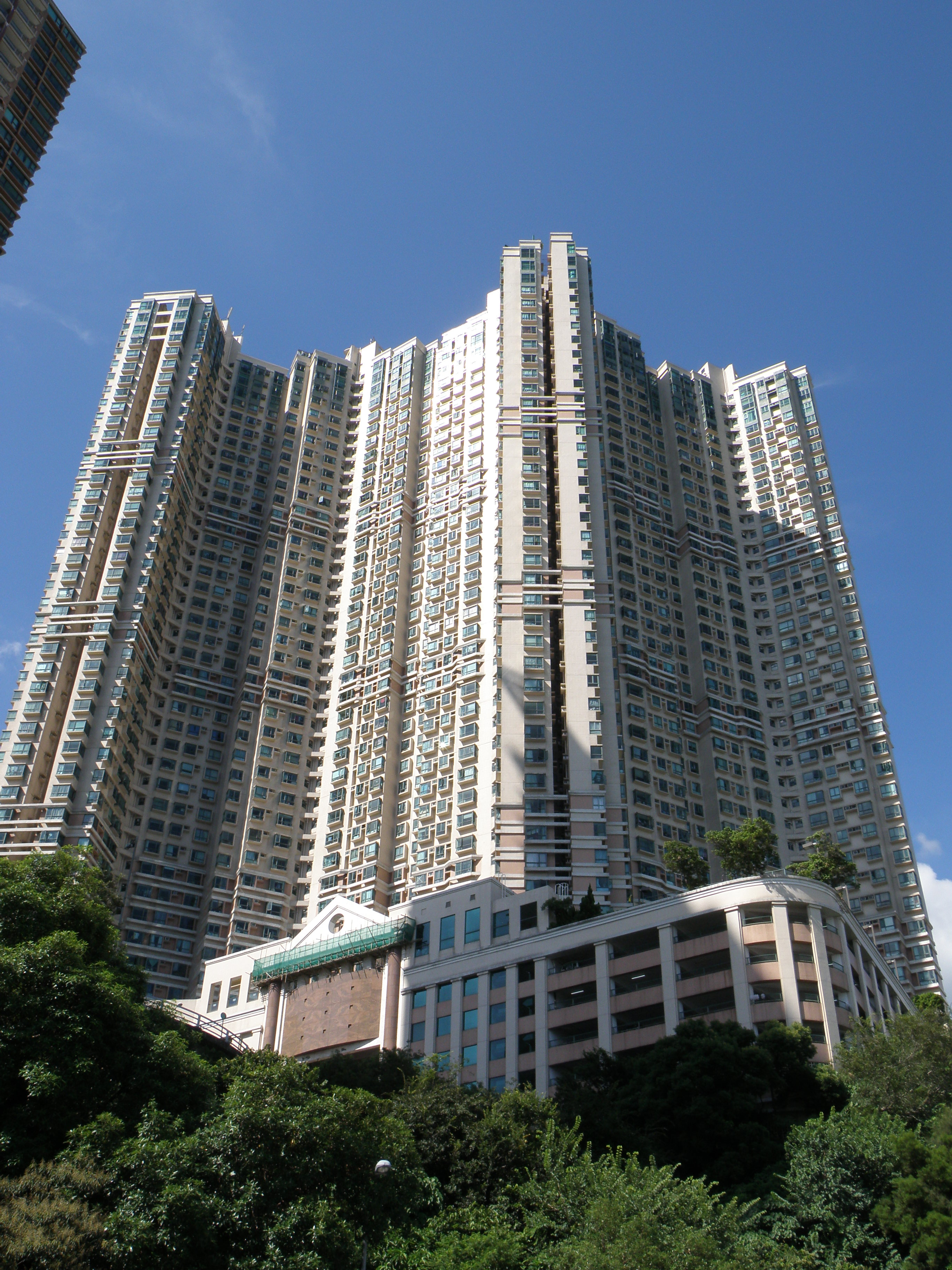 Phase 1 of Sea Crest Villa, Sham Tseng, Hong Kong.